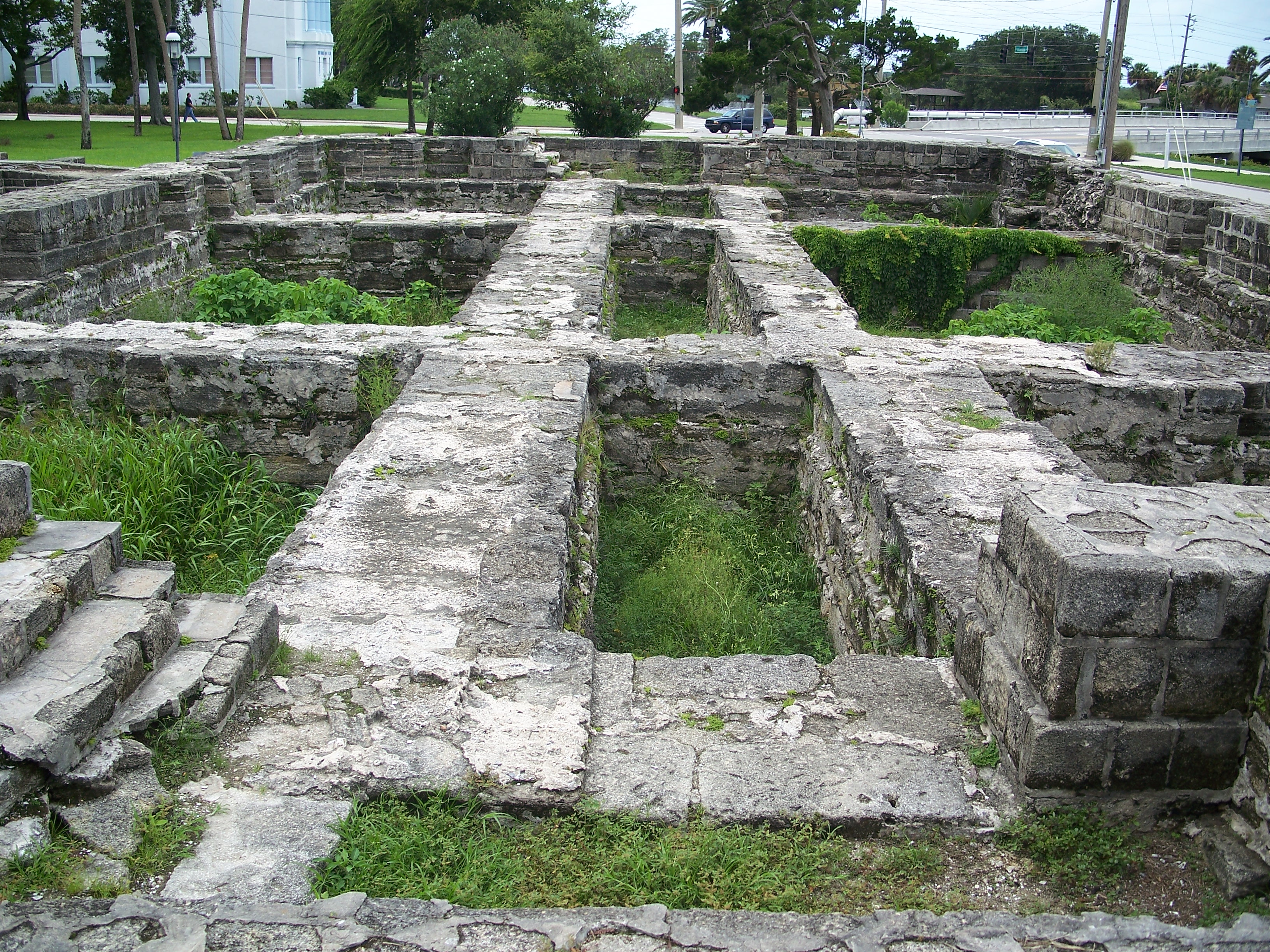 Foundation of Turnbull Palace, in the New Smyrna Beach Historic District, in New Smyrna Beach, Florida